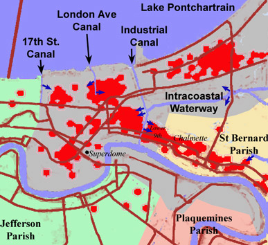 Sketch Map showing Katrina deaths in New Orleans and adjacent parishes (red dots) and principal canal levees/floodwalls which were breached. Red dots for deaths come from The Times Picayune. Dark Blue arrows show levee/flood wall breaches from the above reference and also this one. I used a several references to locate the county boundaries, principal roads and the canals. Sketch Map drawn by Op.Deo October 25, 2005.